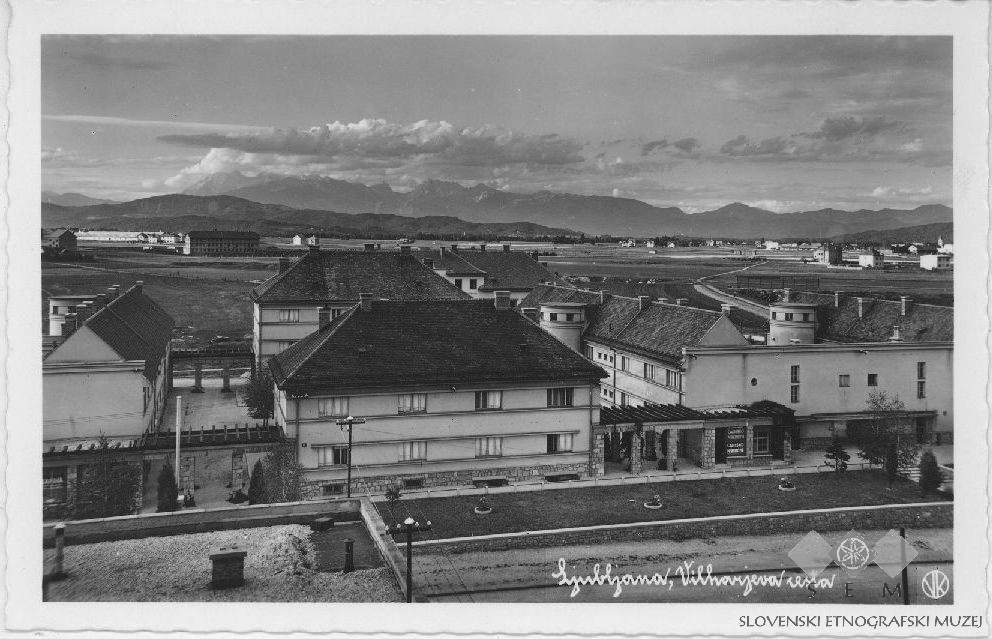 Postcard of Ljubljana, Vilhar Street